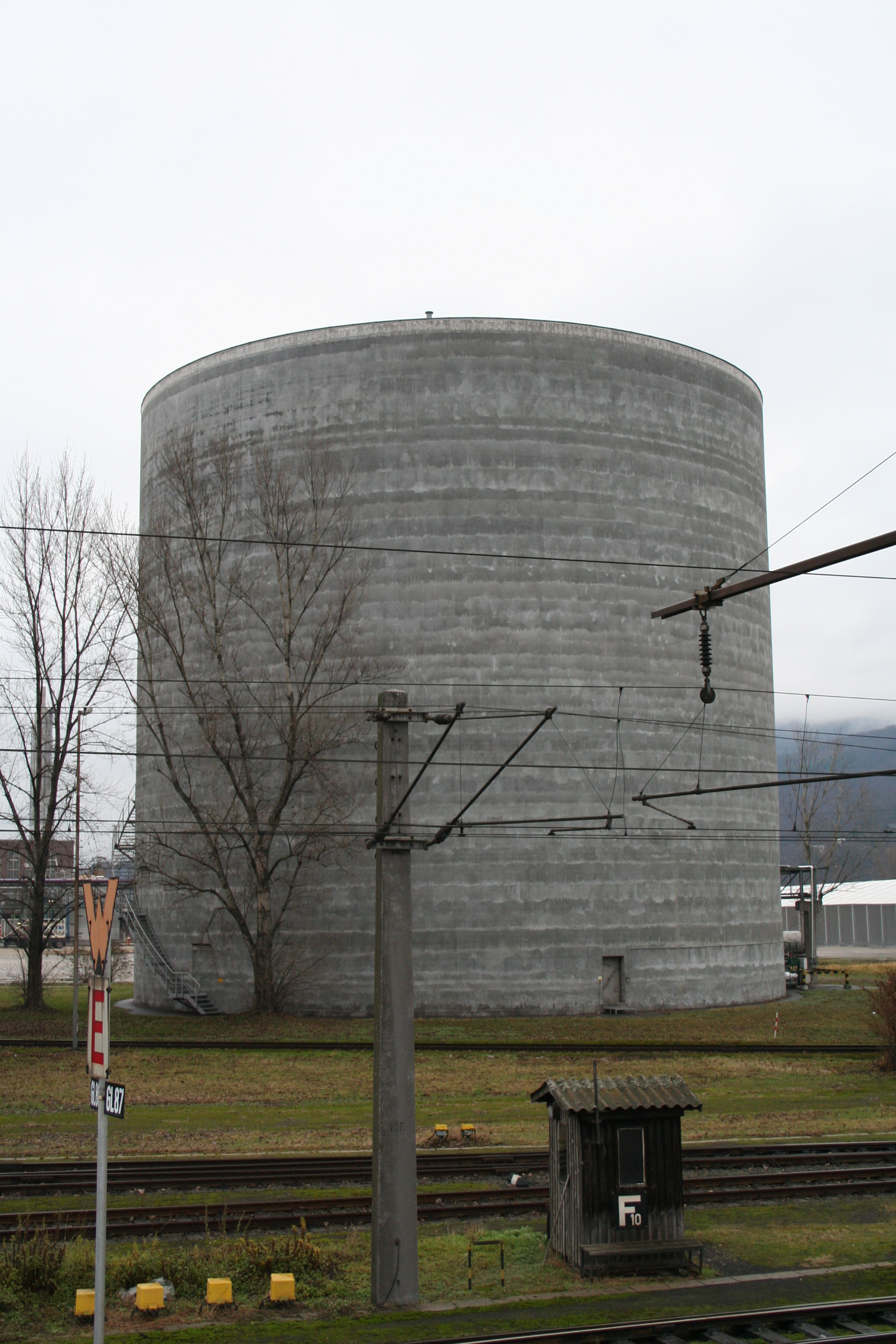 Ammoniac-Tank, "Chemiepark" of Linz, germany